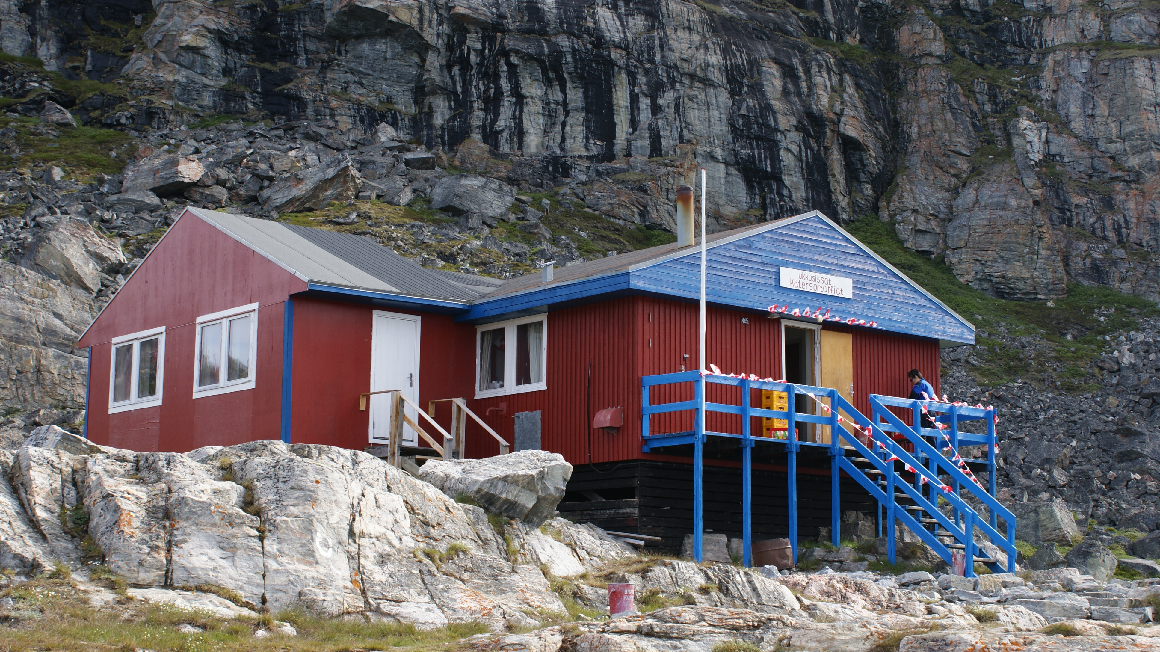 Ukkusissat, Greenland. Katersortarfiat building, a sort of a "public house", used for parties and dancing.